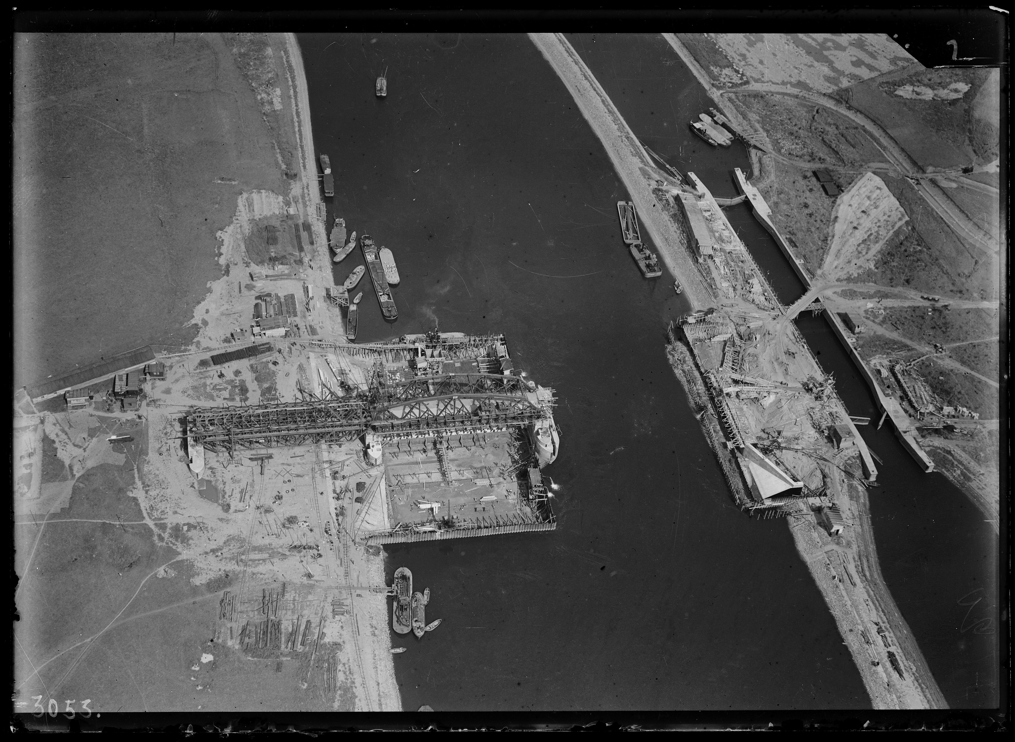 Aerial photograph of Grave, The Netherlands